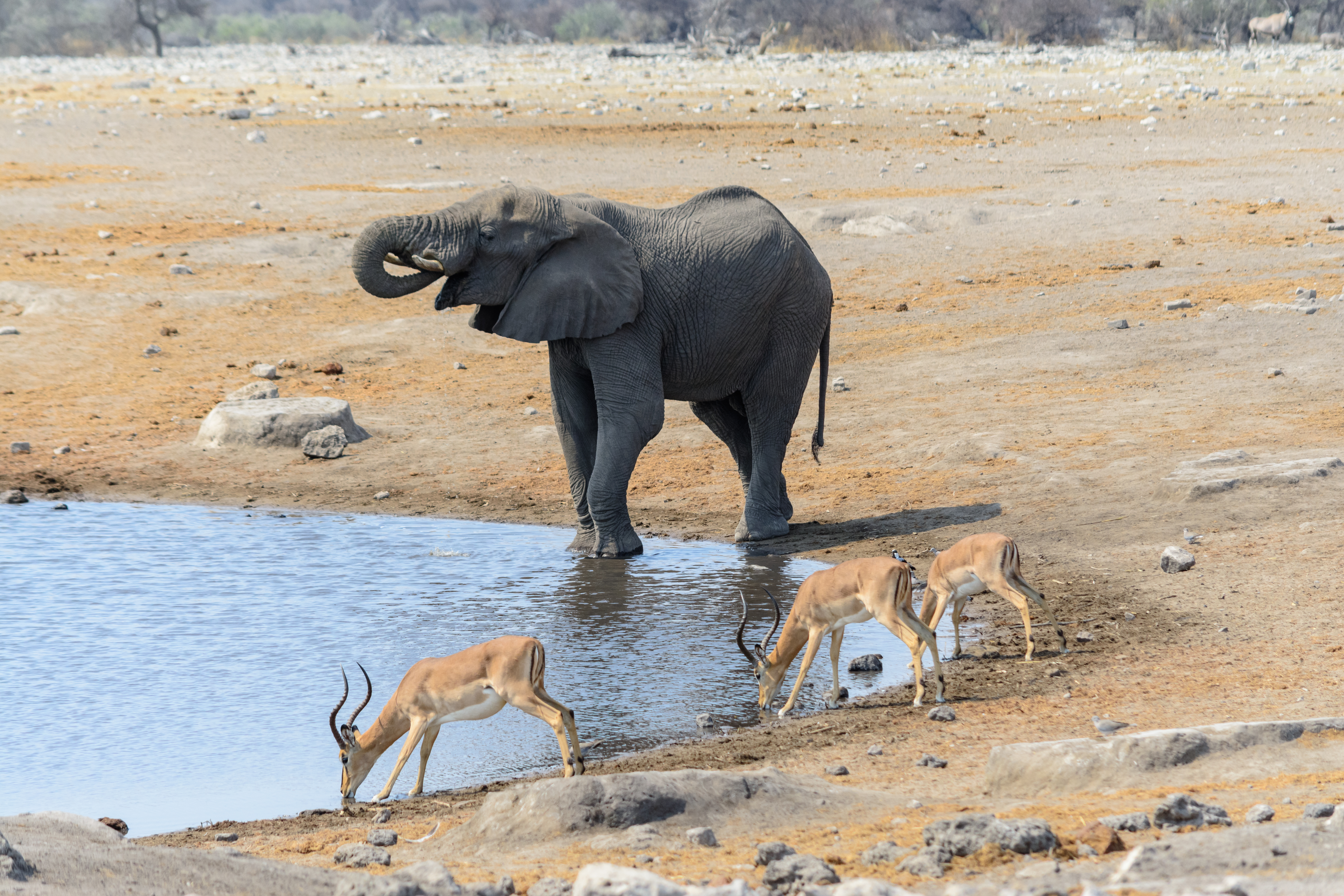 Etosha National Park, Namibia